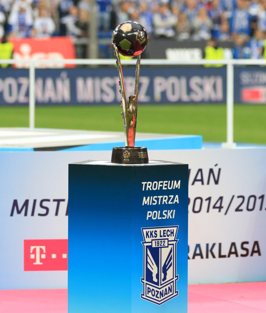 Trophy for Polish Ekstraklasa champion in season 2014/15